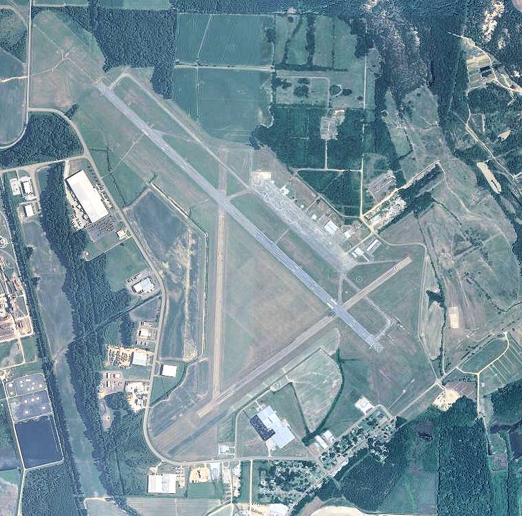 USGS digital orthophoto of Grenada Municipal Airport in Mississippi